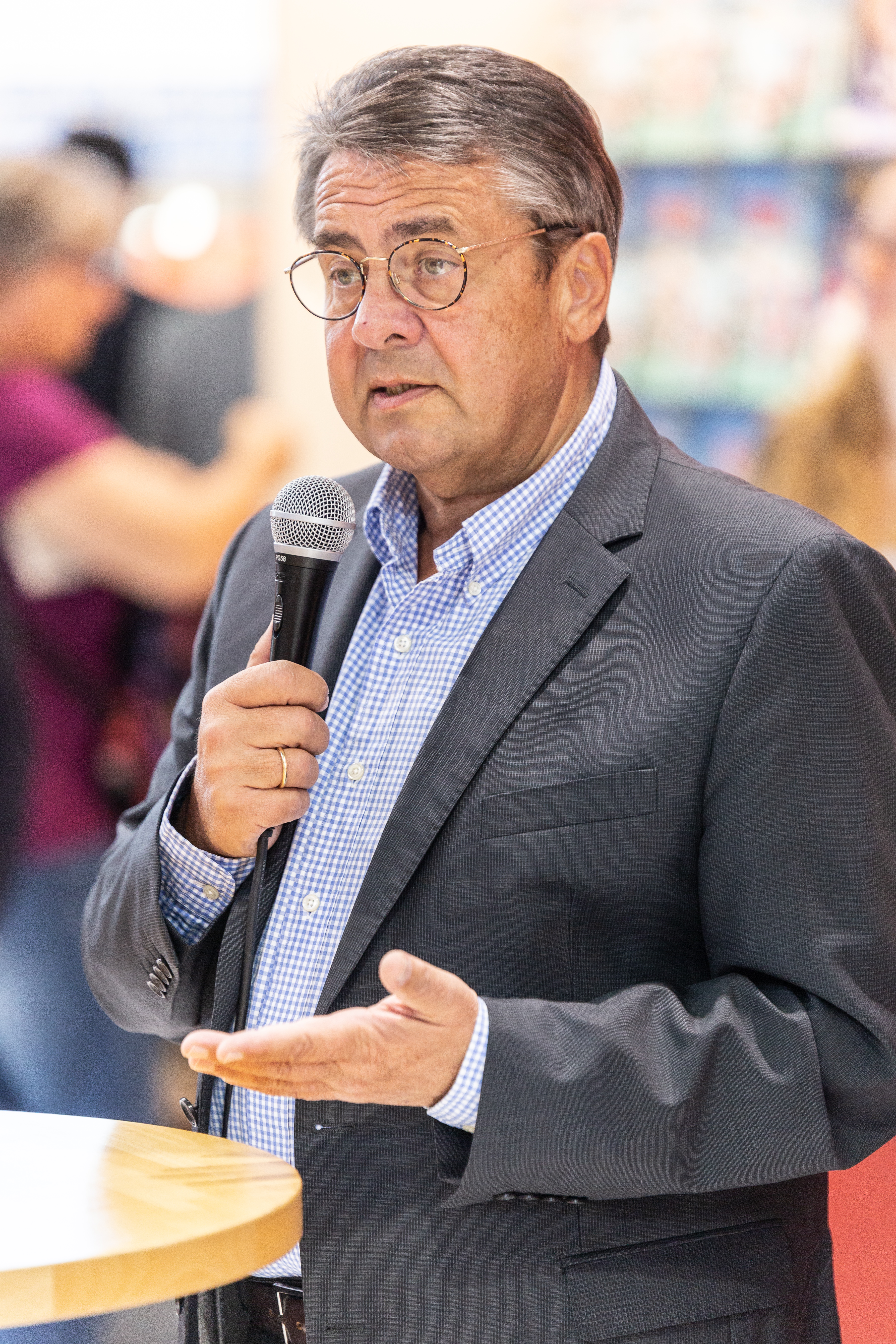 Sigmar Gabriel at the Frankfurt Book Fair 2018